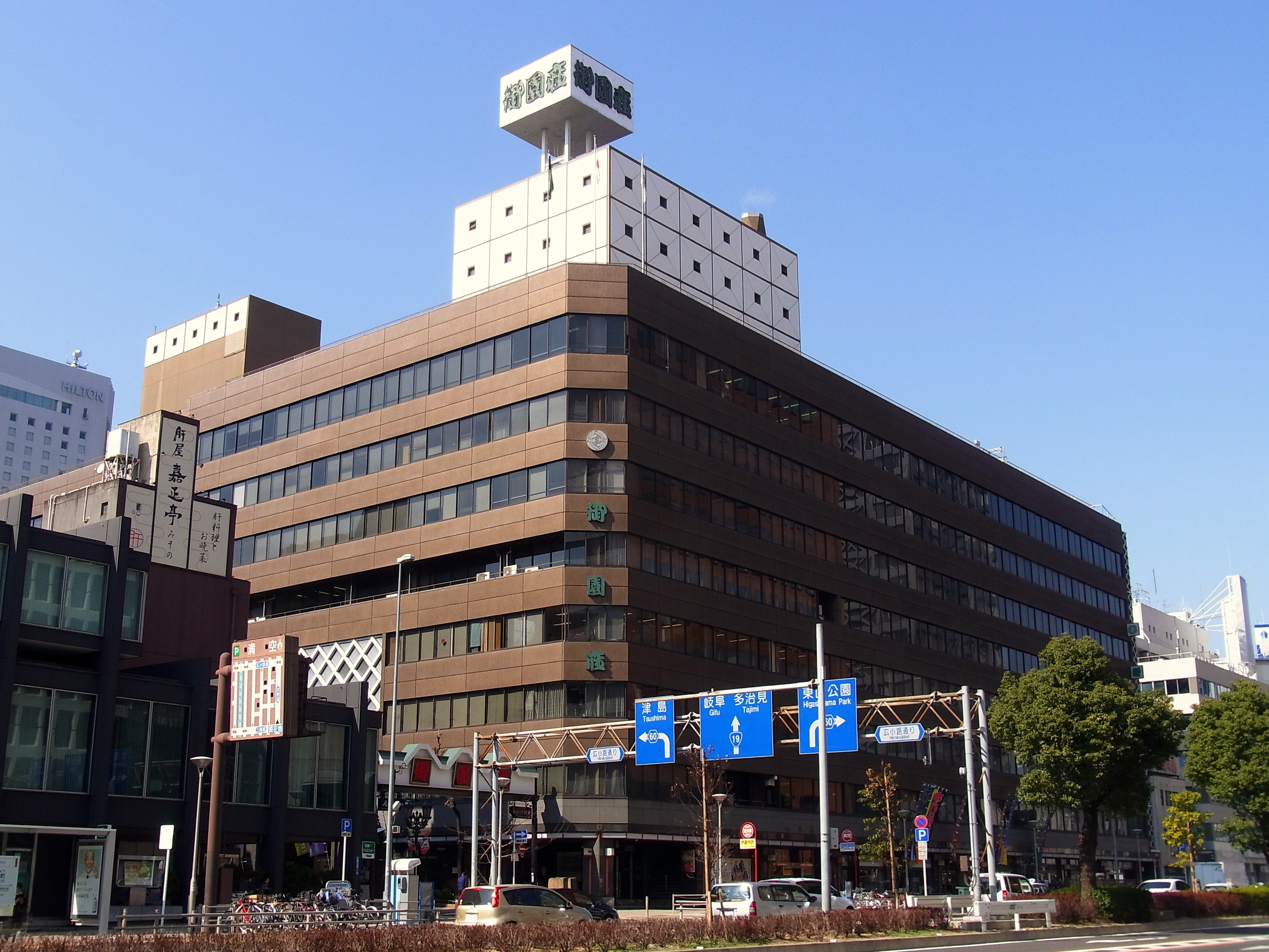 Misonoza is theater in Naka-ku Ward, Nagoya City.